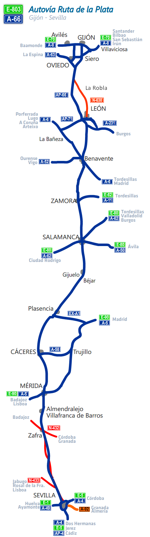 Map of A-66